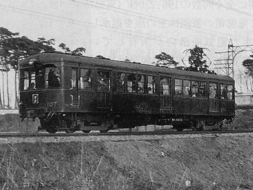 Teito Electric Railway No.107,EMU Type 100